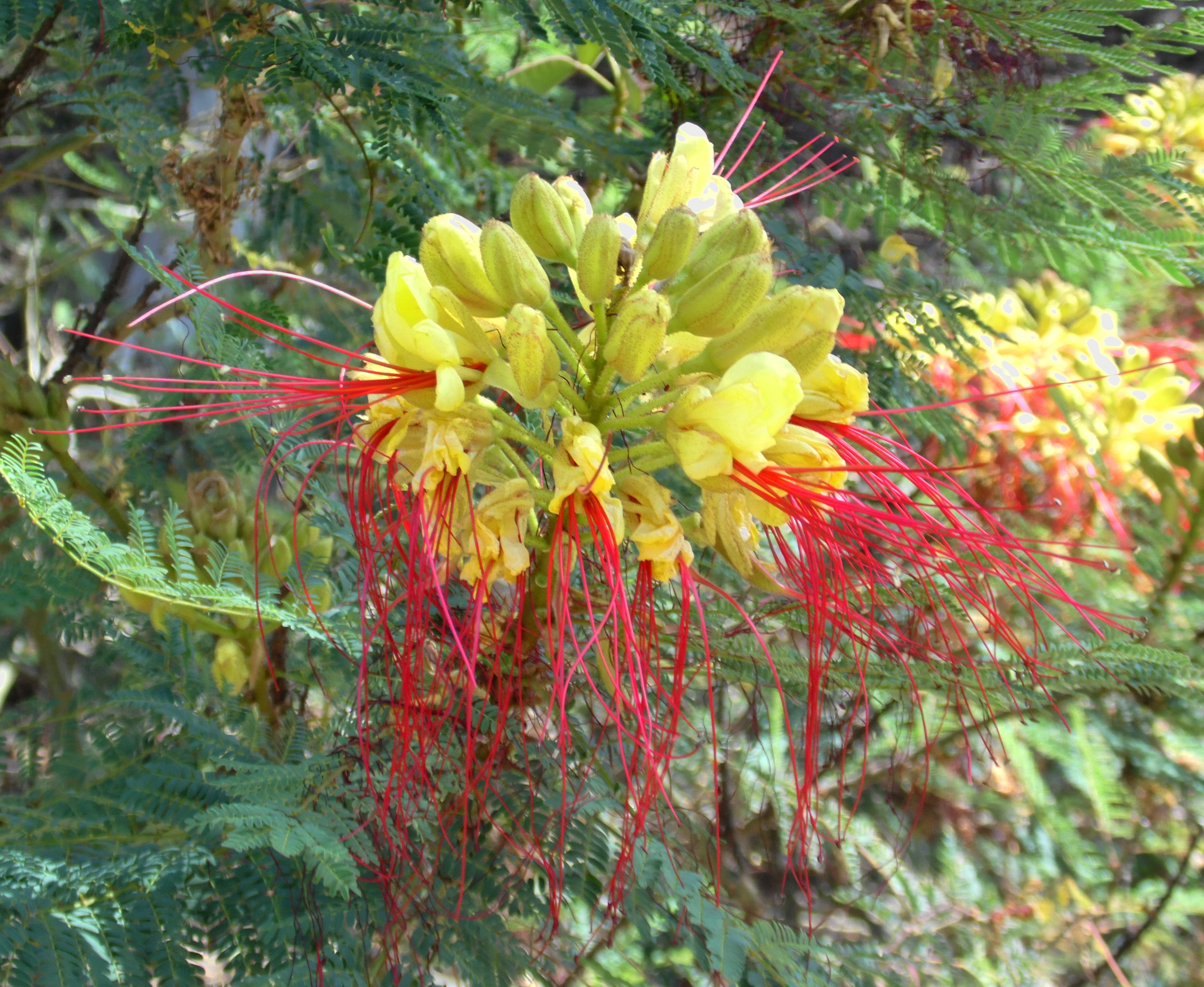 Caesalpinia gilliesii in Parque Botánico de Maspalomas (Gran Canaria)